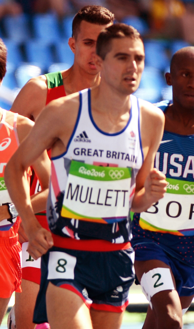 Rob Mullett in the first of three qualifying heats in the men's 3,000-meter steeplechase on Aug. 15 at the 2016 Rio Olympic Games in Rio de Janeiro.